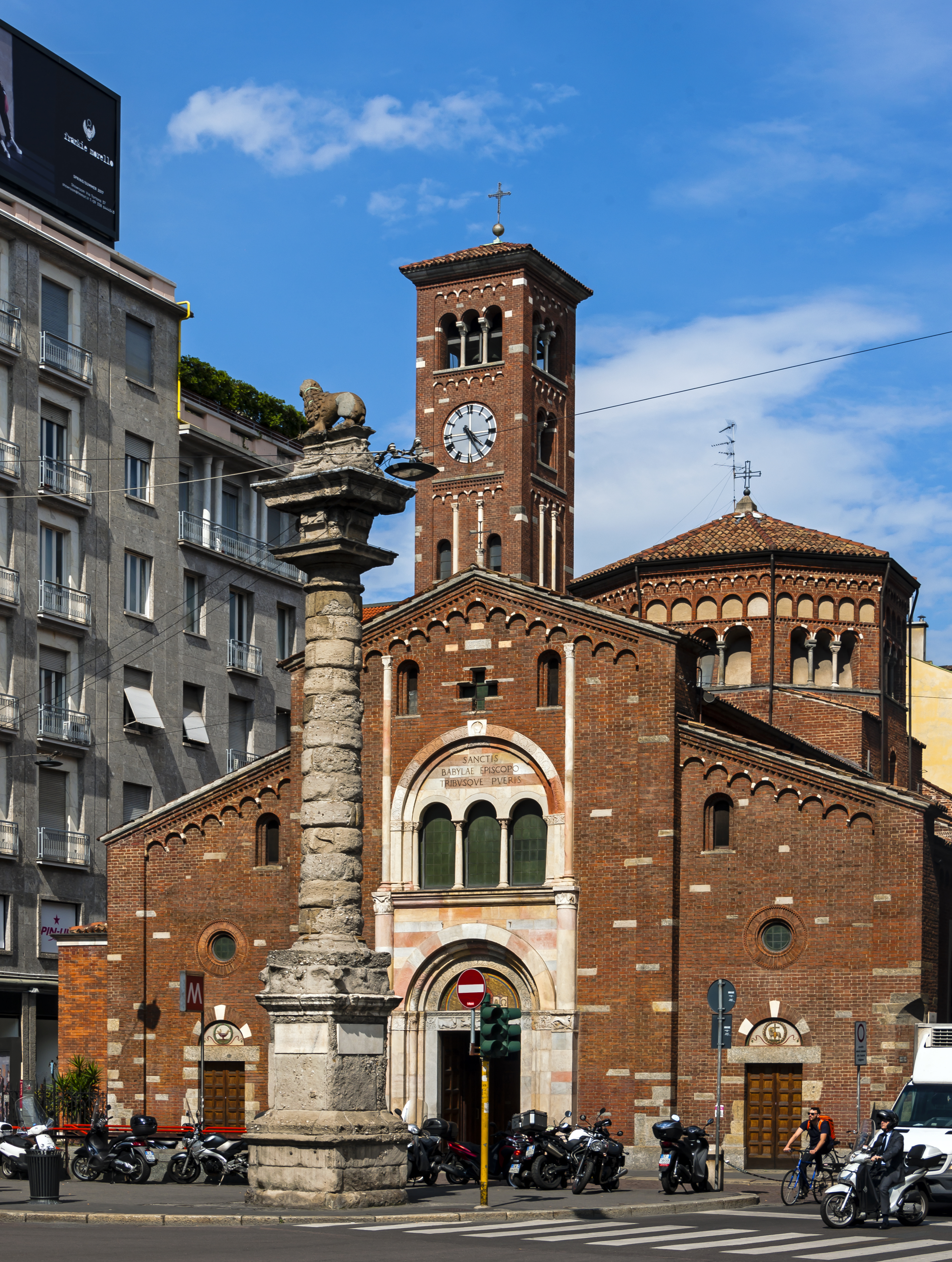 San Babila, Milan, from across the eponymous piazza in the afternoon